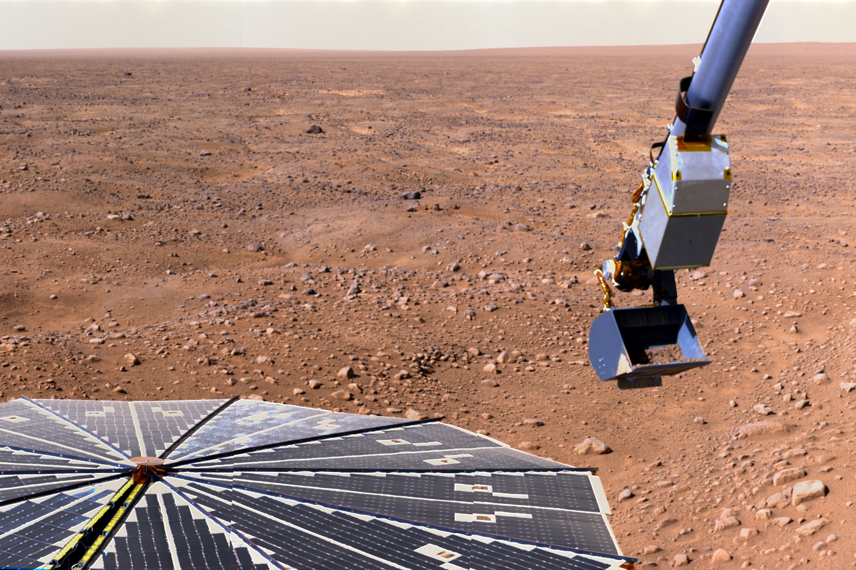 This image shows NASA's Phoenix Mars Lander's solar panel and the lander's Robotic Arm with a sample in the scoop. The image was taken by the lander's Surface Stereo Imager looking west during Phoenix's Sol 16 (June 10, 2008), or the 16th Martian day after landing. The image was taken just before the sample was delivered to the Optical Microscope. This view is a part of the "mission success" panorama that will show the whole landing site in color.